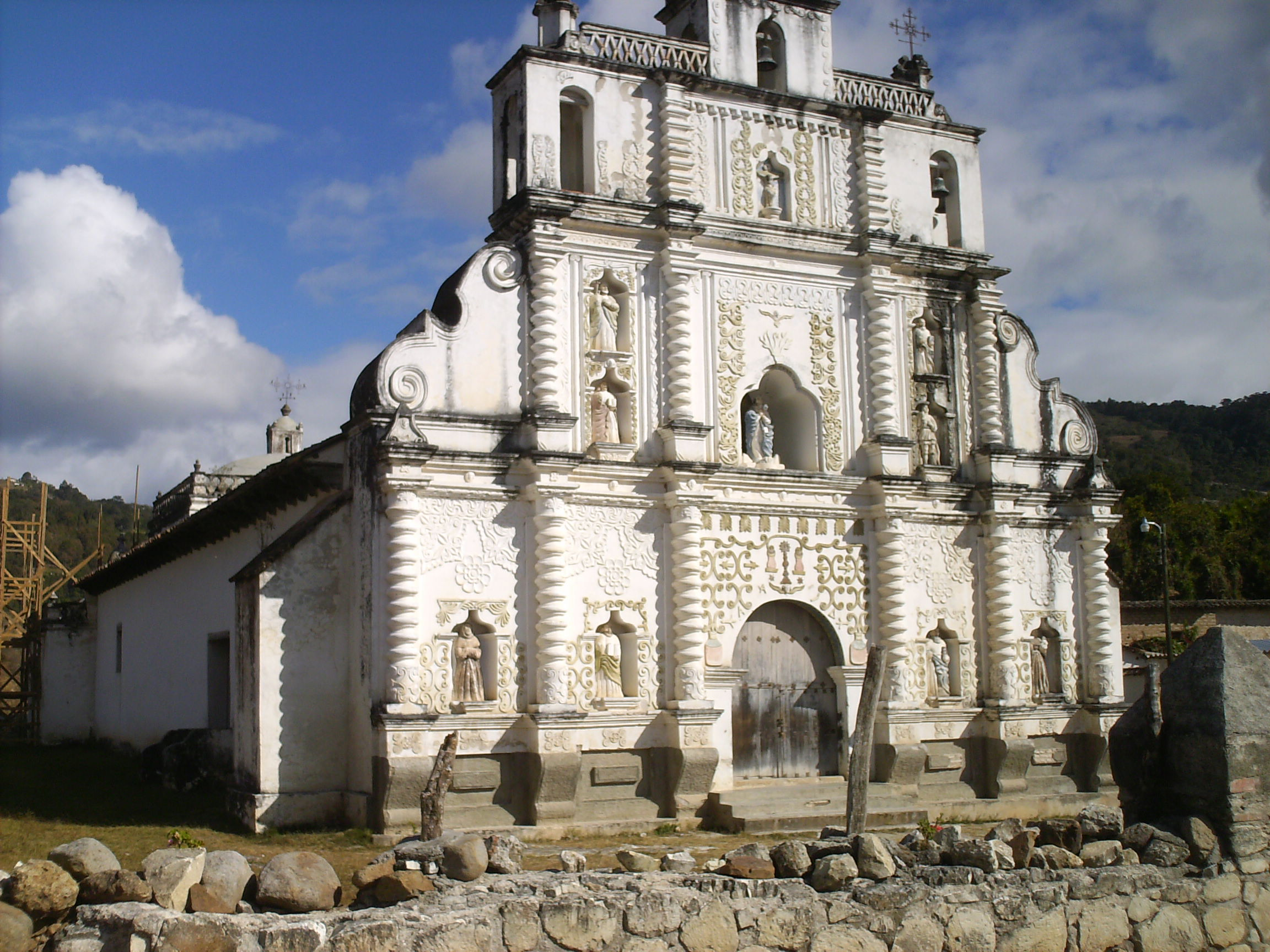 Colonial era Baroque church facade in San Manuel Colohete, a town/municipality in the Department of Lempira, Honduras.